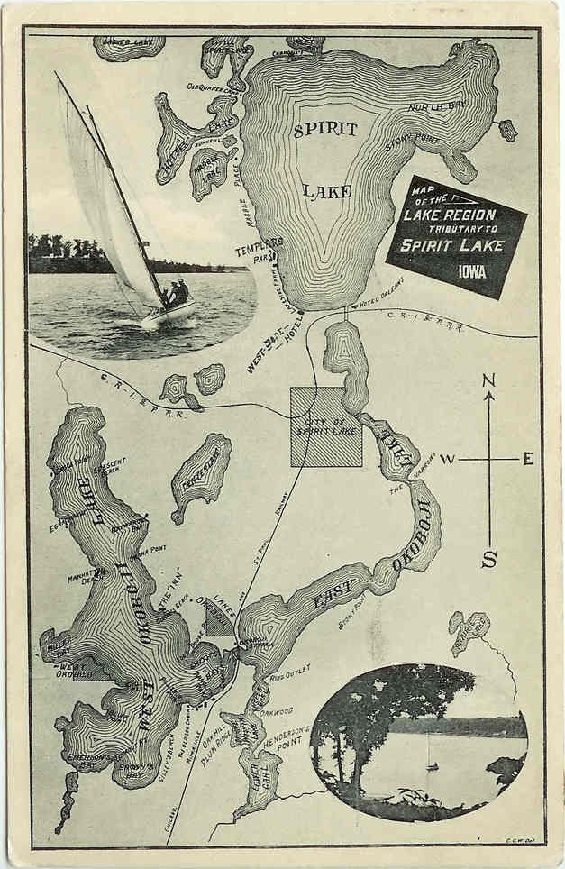 Postcard picture, Spirit Lake region in Iowa. Mailed in 1907. Postcard caption states: "Map of the Lake Region tribuatry to Spirit Lake, Iowa"; store Web page states: "Postmarked Okoboji Iowa Aug 1 1907"